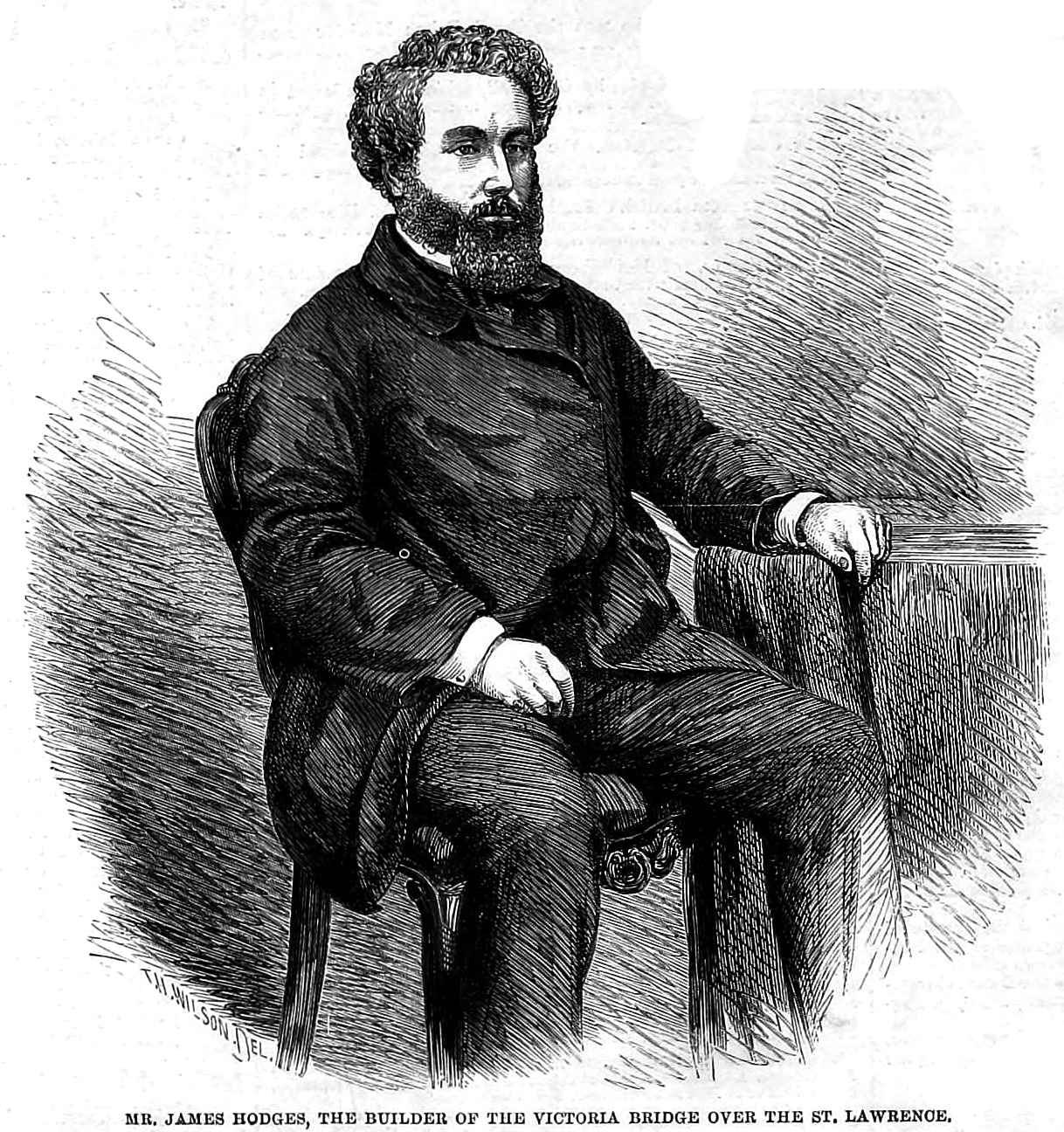 James Hodges engineer of Victoria Bridge over St. Lawrence